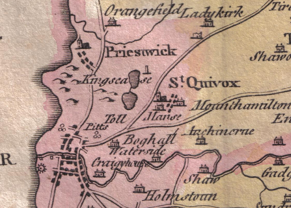 Muckle Monton Loch, South Ayrshire, Scotland.